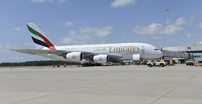 The first Emirates flight to Orlando International Airport (Flight 219 from Dubai) at the gate on 1 September 2015. The inaugural flight was made with an Airbus A380 aircraft, but the route will be operated by a Boeing 777-300ER. It is the third visit to the airport by an A380. Airbus visited the airport with a test aircraft before the model's entry into service. A Lufthansa A380 en route to Miami International diverted to Orlando International Airport as well. This aircraft was the first scheduled, commercial service to the airport with an A380.